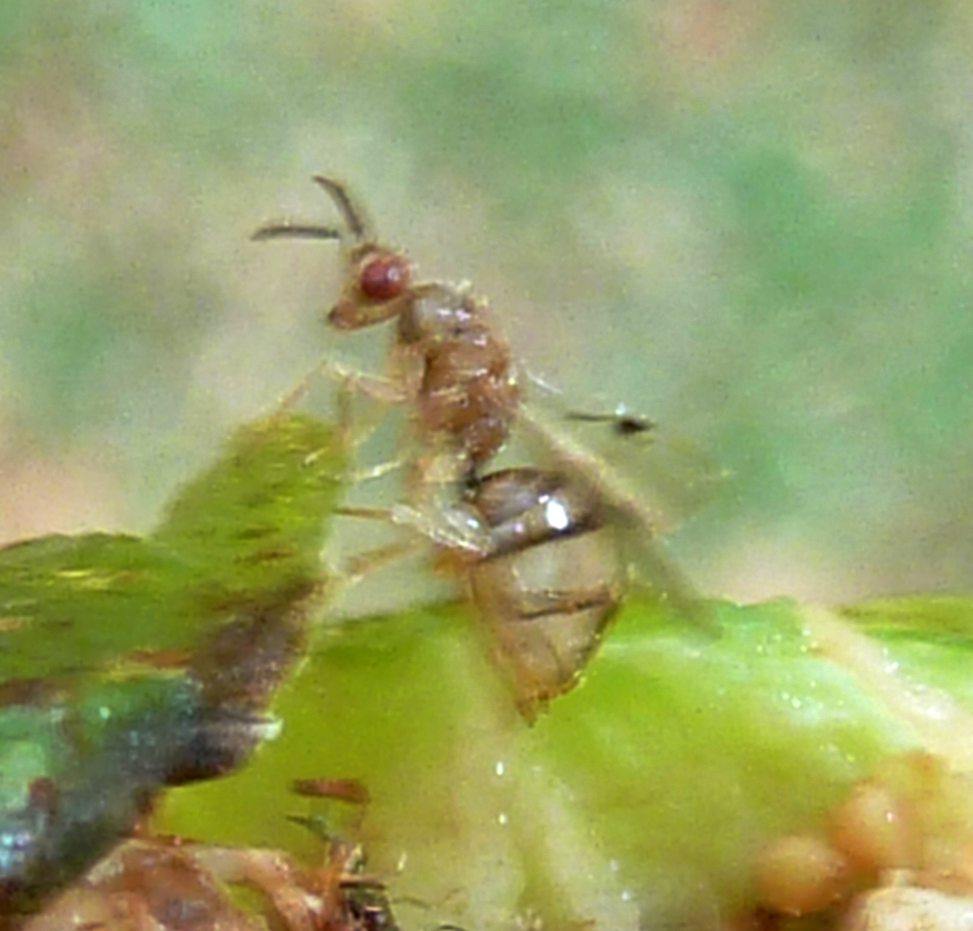 Sycophila sp. gall wasp on Ficus sur, Jan Celliers Park, Pretoria.